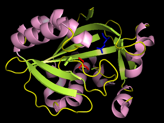 This image shows the structure of IPP isomerase obtained from the open-source RCSB Protein Data Base. The user Yjlu22 highlighted the active sites using Pymol, another open-source software.